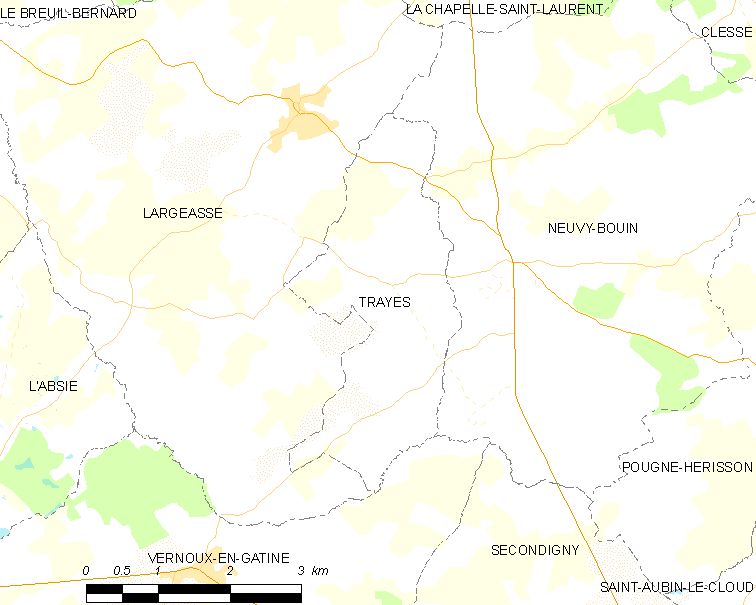 Map of French municipality Trayes